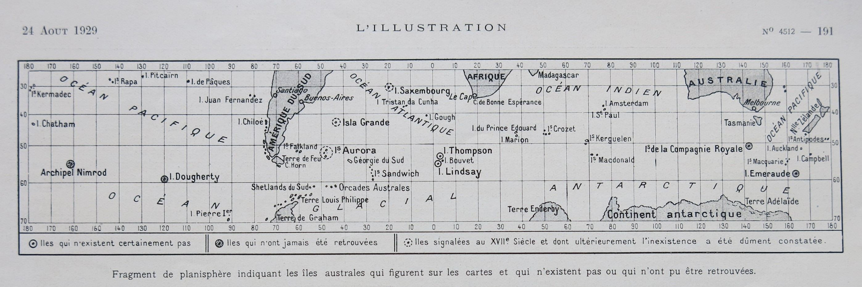 Map with an overview of the.